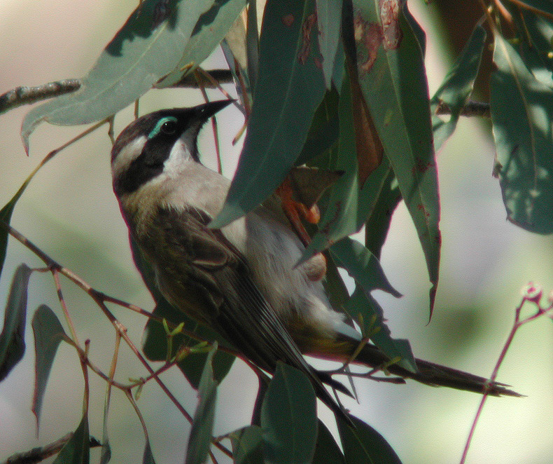 Black-chinned Honeyeater (Melithreptus gularis) Kurwongbah, SE Queensland, Australia